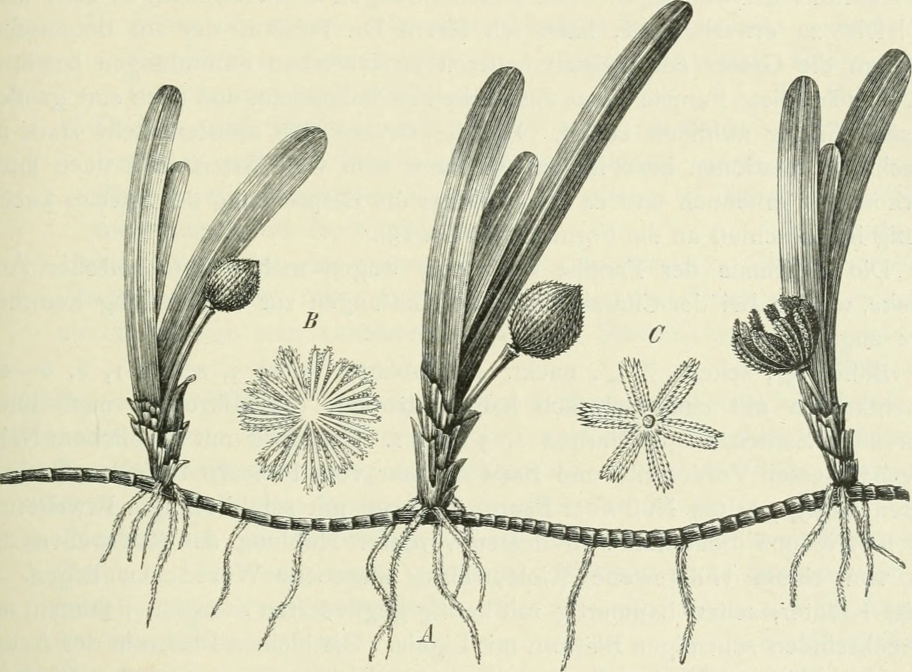 Title: Die Pflanzenwelt Afrikas, insbesondere seiner tropischen Gebiete : Grundzge der Pflanzenverbreitung im Afrika und die Charakterpflanzen Afrikas Year: 1910 (1910s) Authors: Engler, Adolf, 1844-1930 Subjects: Botany Publisher: Leipzig : W. Engelman Text Appearing Before Image: Helobiae. — Hydrocharitaceae. 113 Ozeans und auch an den pazifischen Küsten des Monsungebietes verbreitet, ist vom Roten Meer bis Natal an der ostafrikanischen Küste anzutreffen. Auch eine zweite Art, H. stipjt/acea (Forsk.) Aschers., mit zweihäusigen Blüten (Fig. 103) findet sich vom Roten Meer bis Lamu, sowie auch an den Küsten der Maskarenen und Nord-Madagaskars. Enalus L. C. Rieh, mit der einzigen Art E. acoroides (L. fil.) Steud. ist verbreitet an den nördlichen und westlichen Küsten des Indischen Ozeans, so- wie im Roten Meer; weiter südlich ist sie an der afrikanischen Küste bis jetzt nicht beobachtet worden. An dem kräftigen Rhizom stehen linealische Blätter Text Appearing After Image: Fig. 104. Thalassia Hemprichii iEhrenb.) Aschers. A eine fruchttragende Pflanze; B xind C aiif- gesprungene, abgefallene Früchte. mit verdicktem Rand, welche nach ihrer Zerstörung zwei starke, schwarze glänzende Fäden, die Bastbündel der Randnerven zurücklassen. Die kleinen männlichen Blüten sind zu mehreren von kurz gestielten Spathen umschlossen und lösen sich zur Befruchtungszeit los, um an die Oberfläche zu treten, wie die Q^ Blüten von Vallisneria\ die weiblichen Blüten stehen von ihrer Spatha um- schlossen auf langem Stiel, der nach der Befruchtung spiralig gewunden ist und eine wallnußgroße eiförmige Frucht trägt, deren Samen auch genossen werden. Thalassia Sol. mit der einzigen Art Th. Hemprichii (Ehrenb.) Aschers. Flg. 104) besitzt einzelnstehende männliche Blüten ohne Blumenblätter, welche ebenso wie die weiblichen auf kurzem Stiel stehen; sie ist wie die vorige Art verbreitet und kommt nur an ganz seichten Stellen der Küste zur Blüte. Engler, Charakterpflanzen Afrikas. I. 8